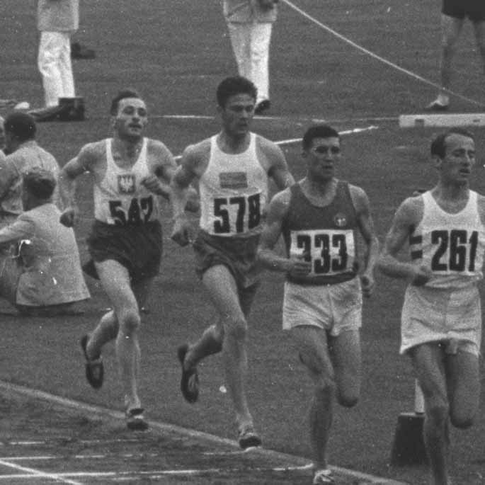 5000 m at the 1936 Olympics; Józef Noji is on the left